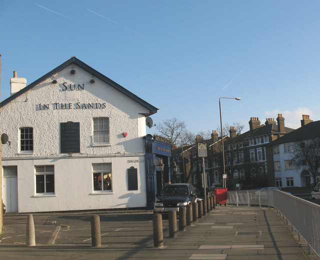 Sun in the Sands inn The inn stands right by the junction where the A2 coming out of London meets the A102 coming out of the Blackwall Tunnel and from this point the modern dual carriageway adopts the A2 identity. But the Sun in the Sands, which gave its name to the junction, has a history going back centuries as a coaching inn on the Dover Road.